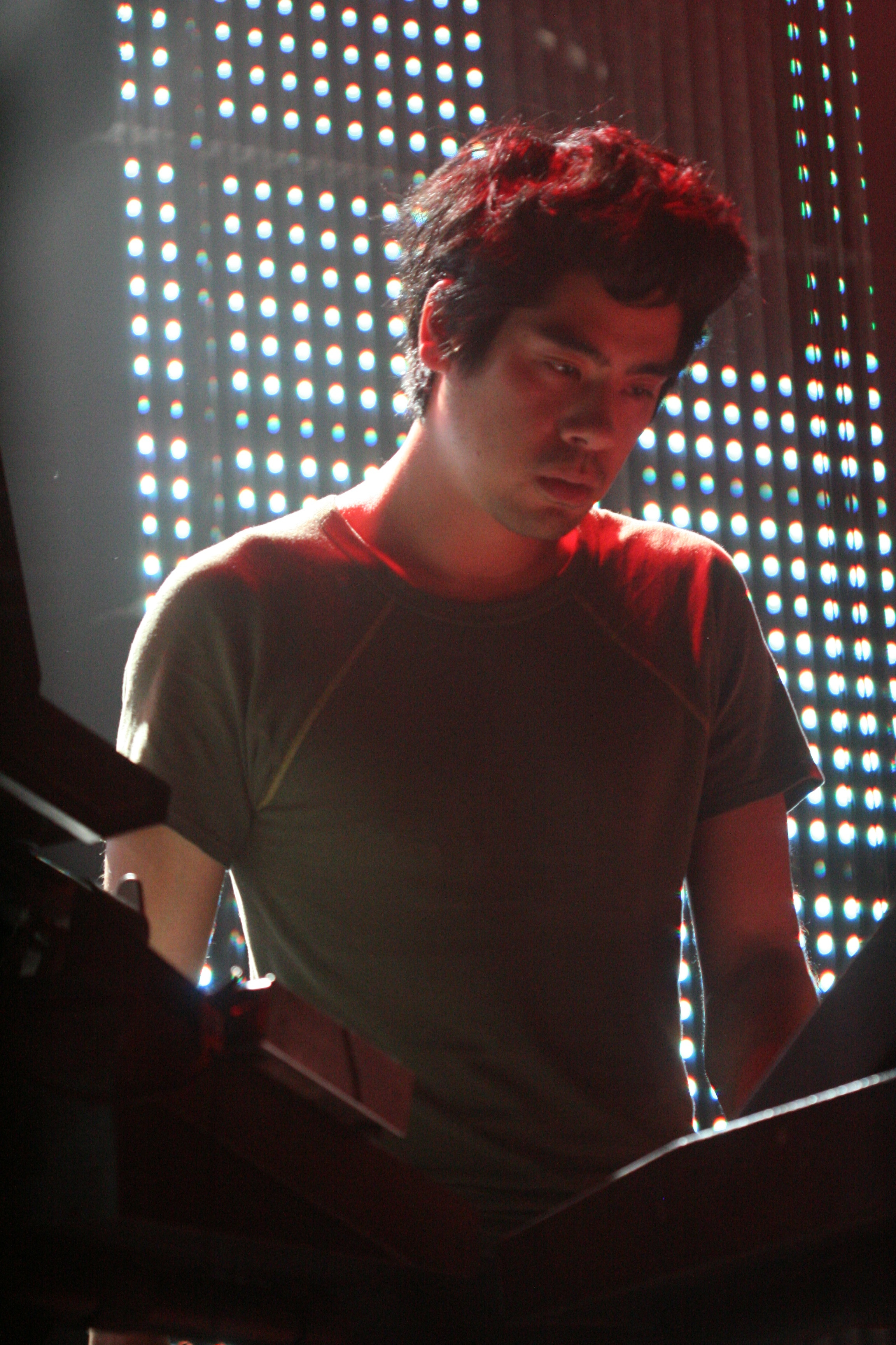 Reuben Wu of Ladytron performing at The Metro, Chicago, IL.